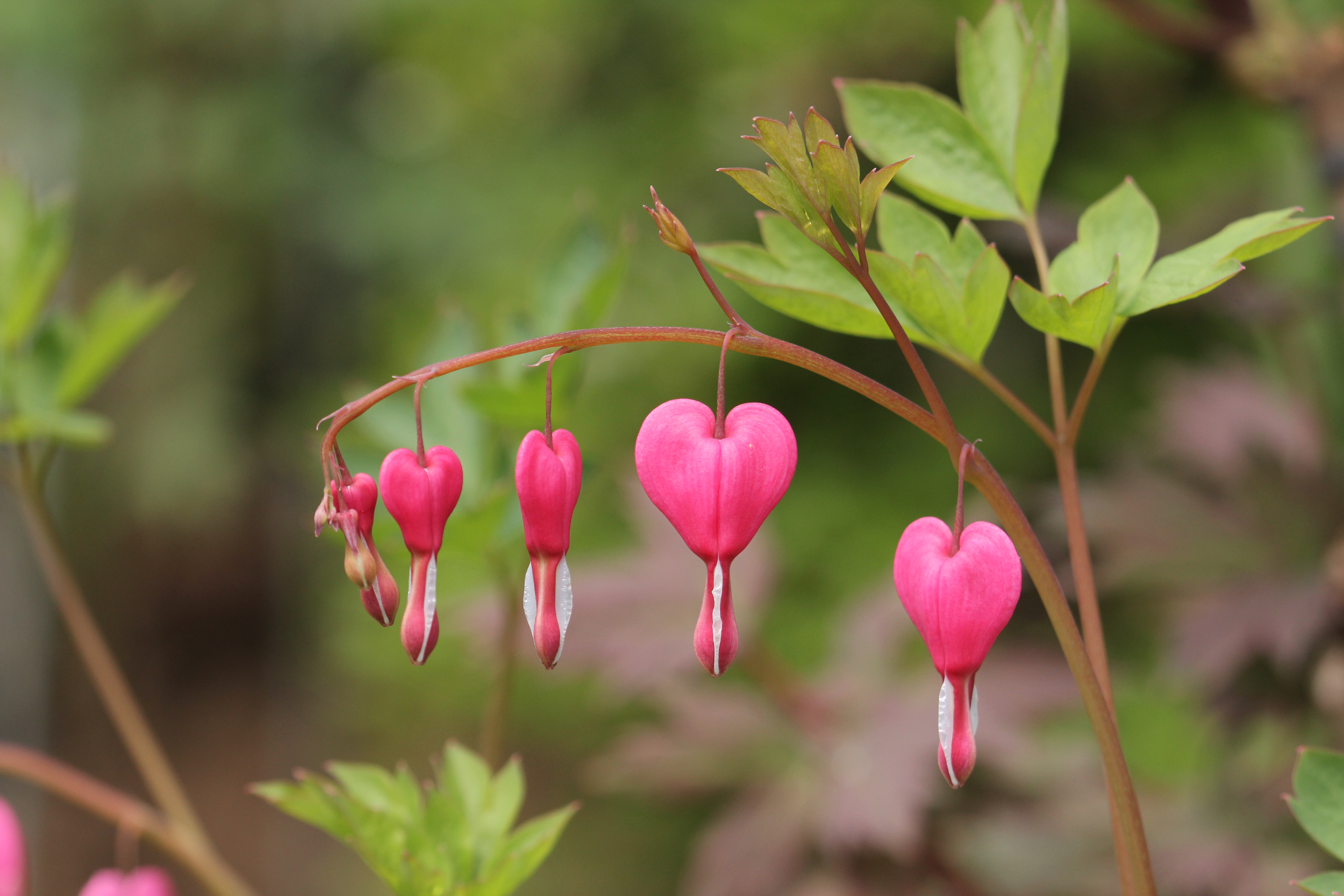 Lamprocapnos spectabilis